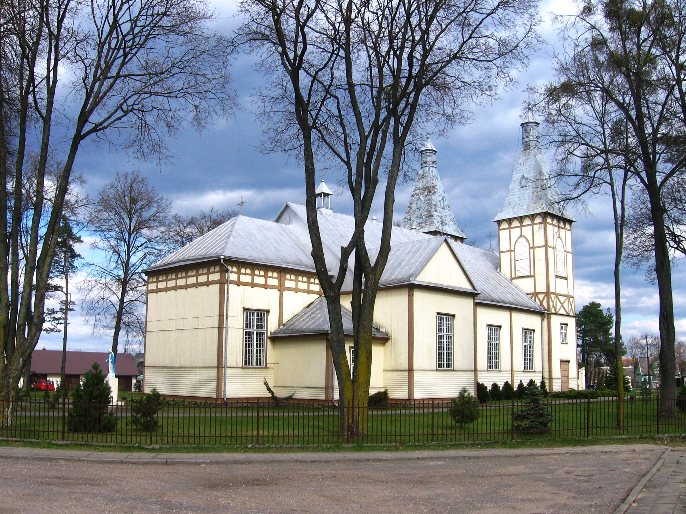 Kazlų Rūda Catholic Church, Lithuania